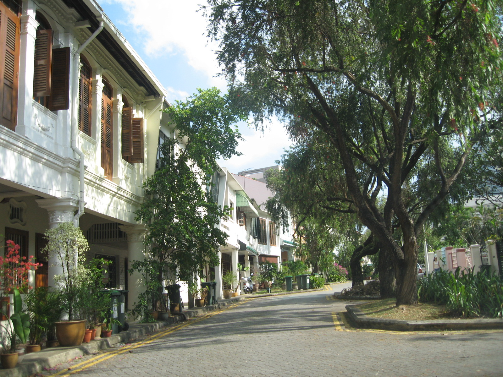 Emerald Hill.